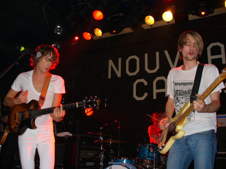 Razorlight - Johnny Borrel & Carl Dalemo au Nouveau Casino (Paris)